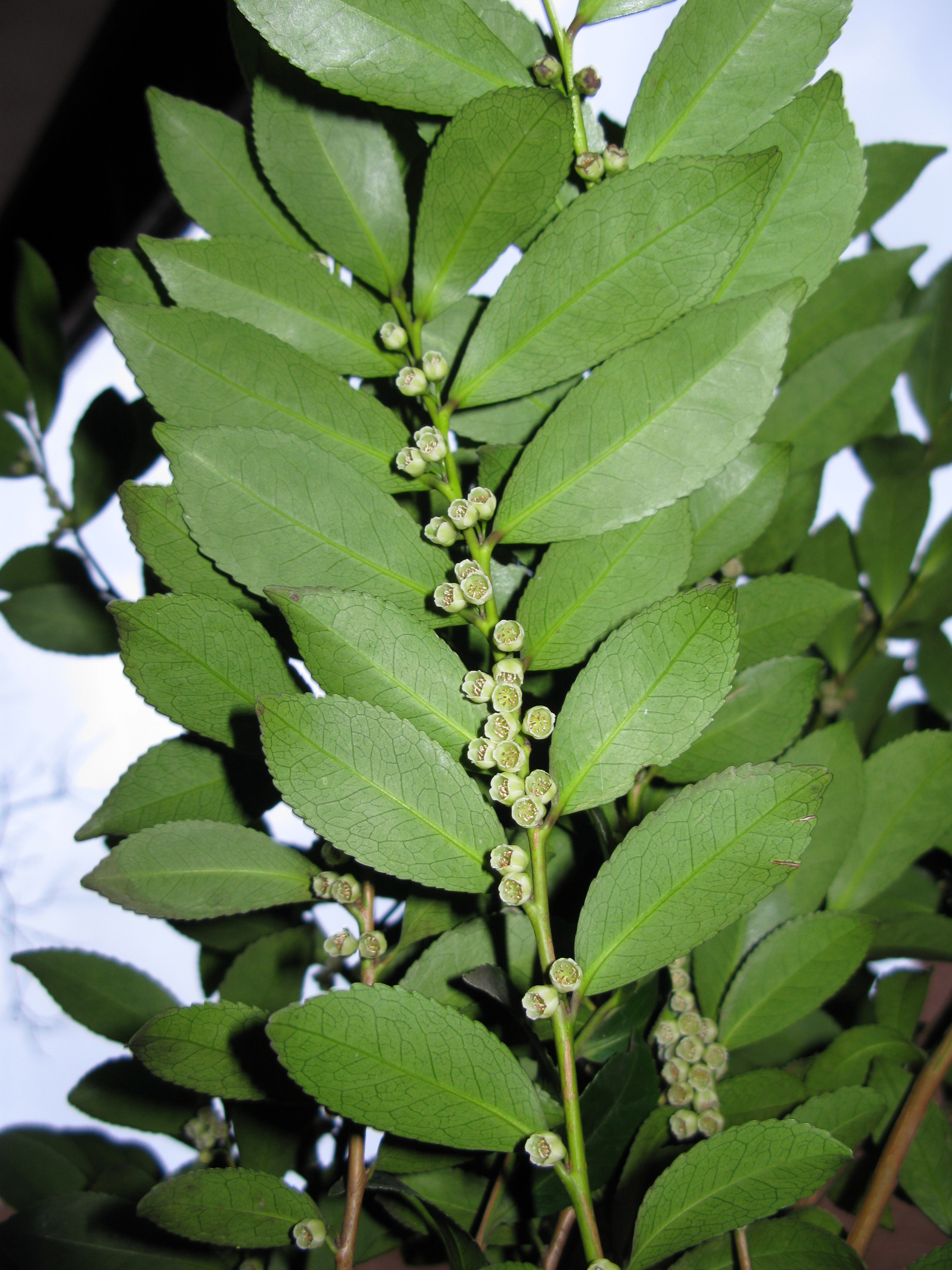 Eurya japonica, male flower, Fukushima pref., Japan